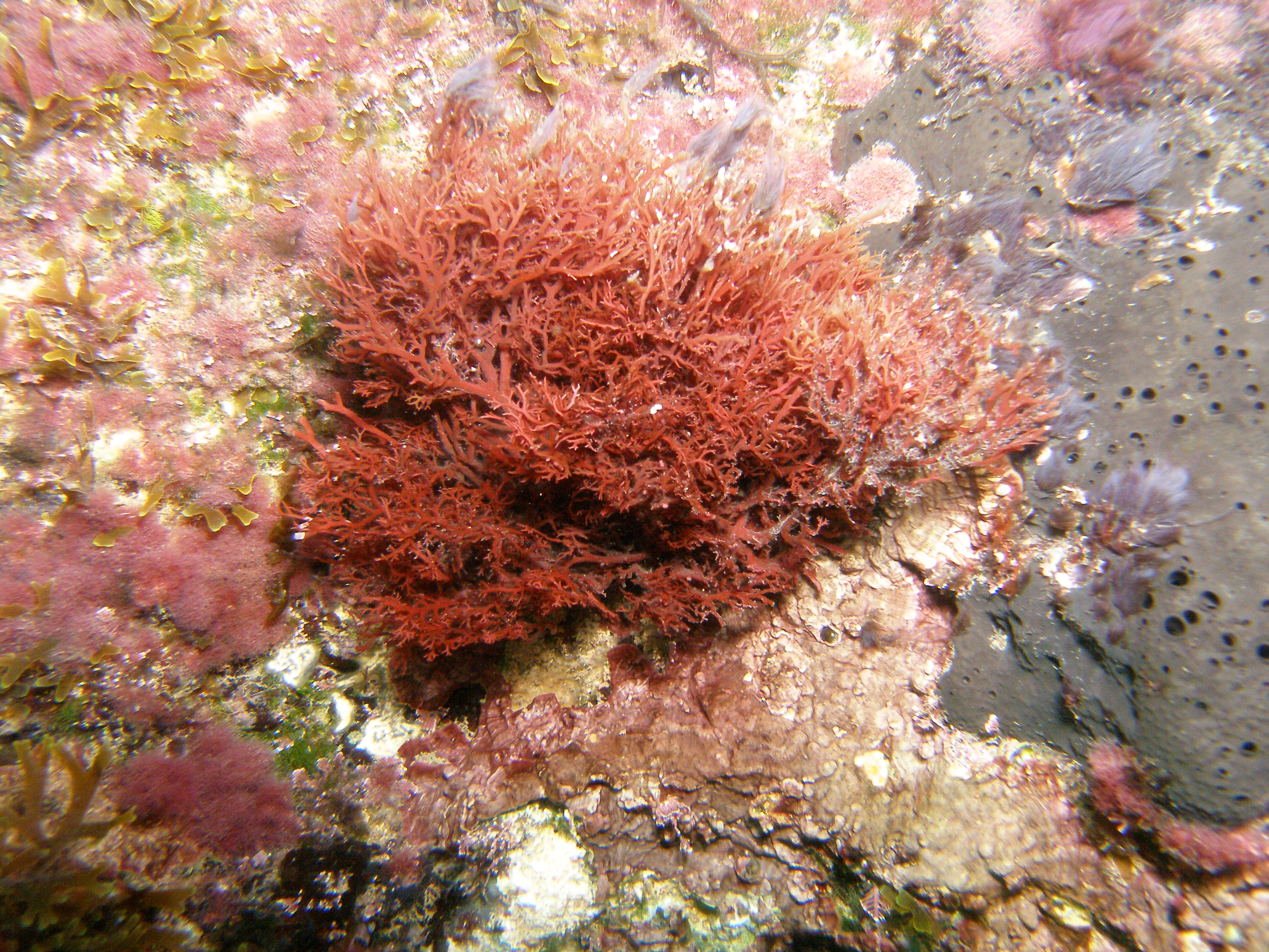 Sphaerococcus coronopifolius, a red seaweed of the order Gigartinales, in a dark small cave along the Apulian coast.